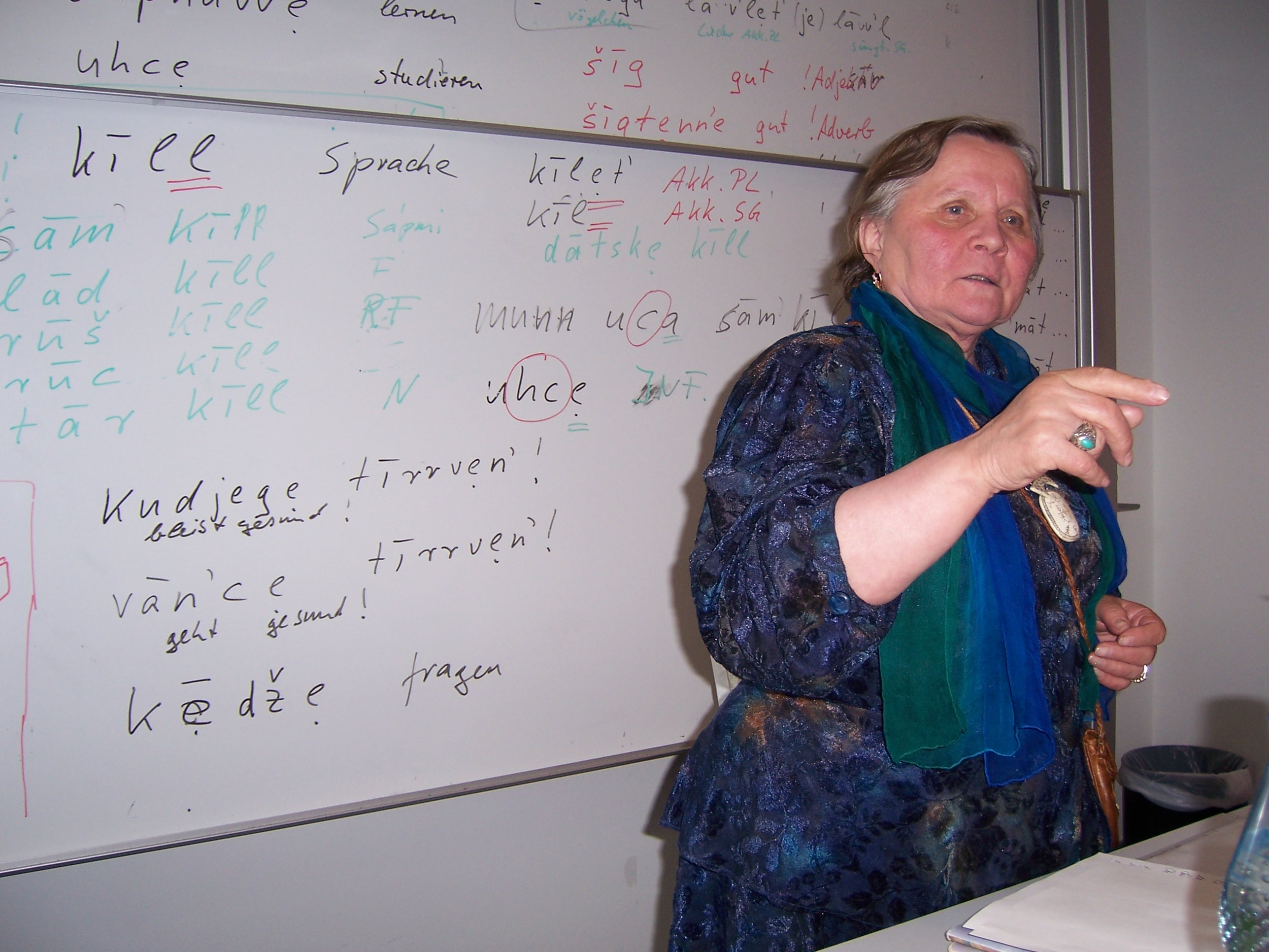 Nina Afanasyeva teaching Kildin Saami for university students (Nordeuropa-Institut der Humboldt-Universität zu Berlin)